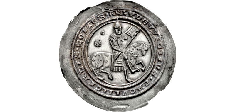 GERMANY, Gotha (Landgrafschaft). Ludwig III. 1172-1190. AR Bracteate (43mm, 0.91 g). Ludwig riding right, holding shield and banner; two small crosses behind. Gotha 183a; Löbbecke 752-4; Kestner 2201-2. Good VF, toned, right edge skillfully repaired, small split at 12.